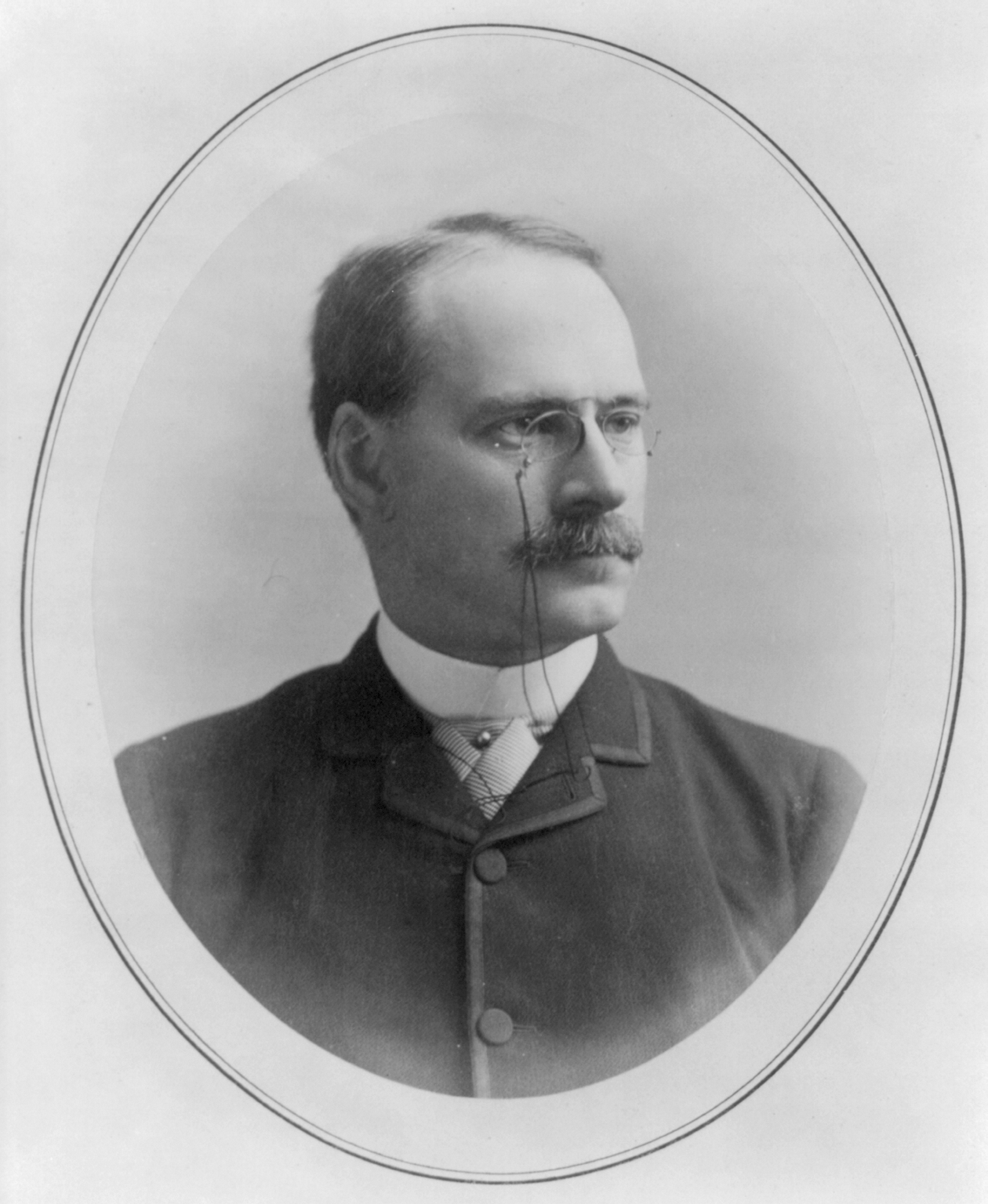 William Collins Whitney (1841-1904)